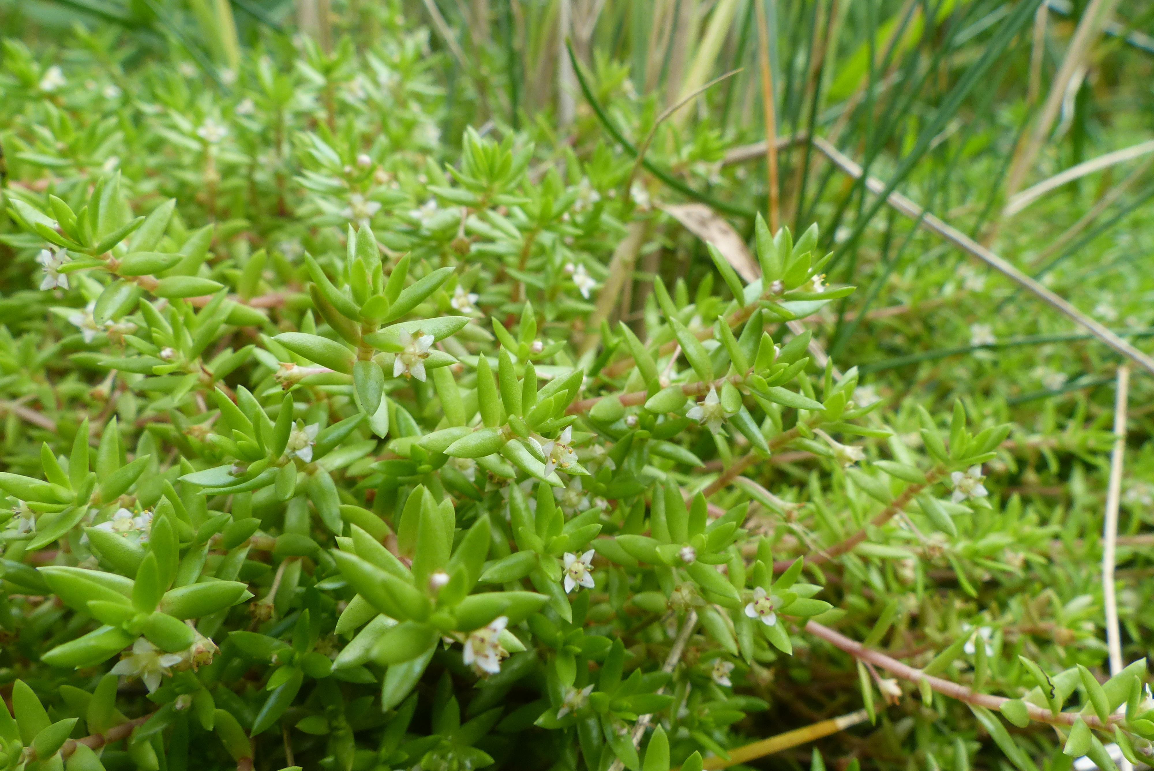 Crassula helmsii